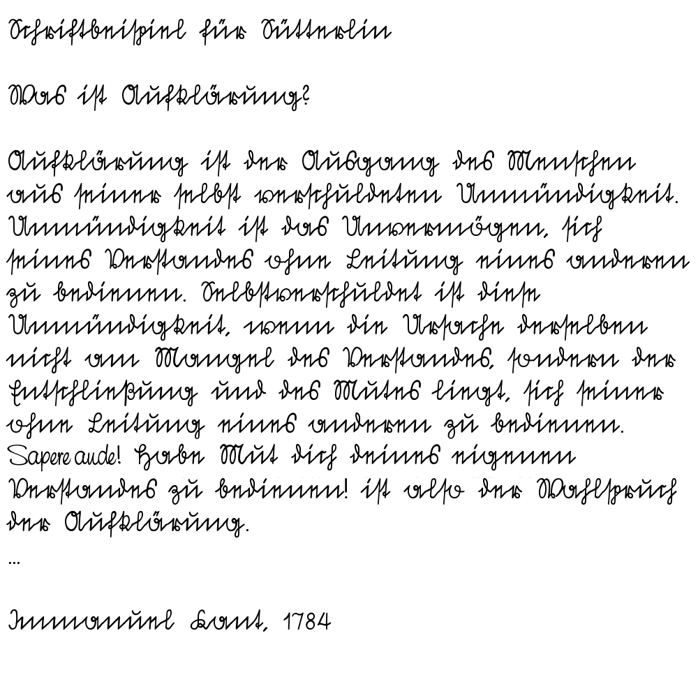 example in typeface Sütterlin Text: Schriftbild für Sütterlin Was ist Aufklärung Aufklärung ist der Ausgang des Menschen aus seiner selbst verschuldeten Unmündigkeit. Unmündigkeit ist das Unvermögen, sich seines Verstandes ohne Leitung eines anderen zu bedienen. Selbstverschuldet ist diese Unmündigkeit, wenn die Ursache derselben nicht am Mangel des Verstandes, sondern der Entschließung und des Mutes liegt, sich seiner ohne Leitung eines anderen zu bedienen. Sapere aude! Habe Mut, dich deines eigenen Verstandes zu bedienen! ist also der Wahlspruch der Aufklärung. --- Immanuel Kant, 1784